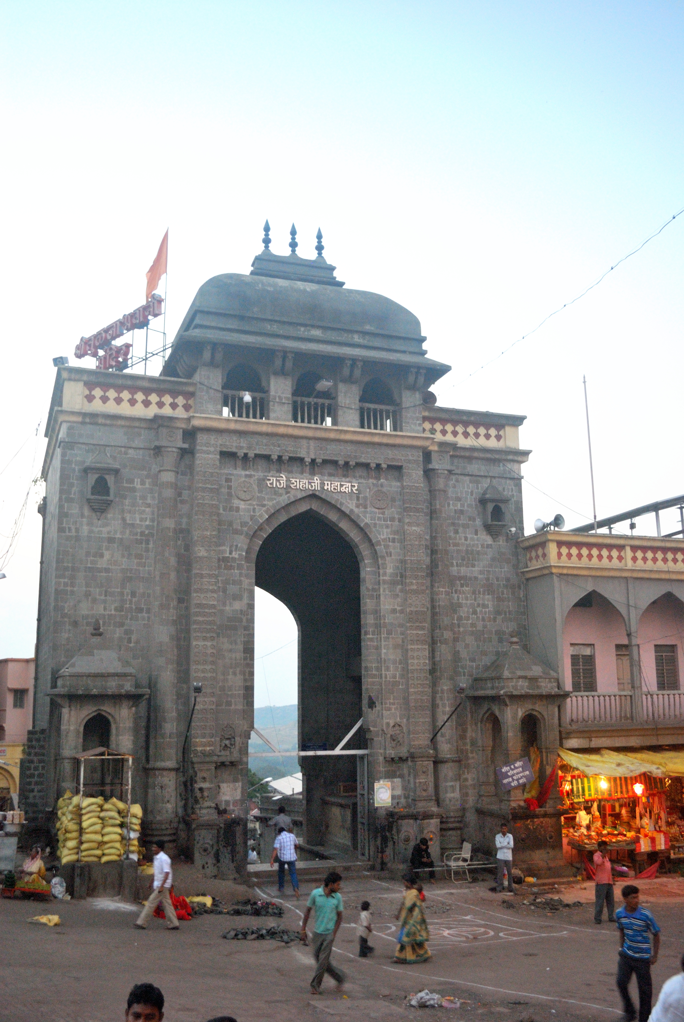 Bhavani Temple in Tuljapur: Entry Gate